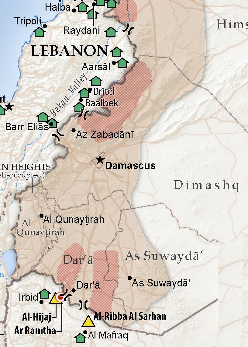 Locations in southern Syria occupied by the Free Syrian Army that are shown on the John Holiday (June 2012) map have been transposed on top of cropped refugee and displacement map by US State Department.